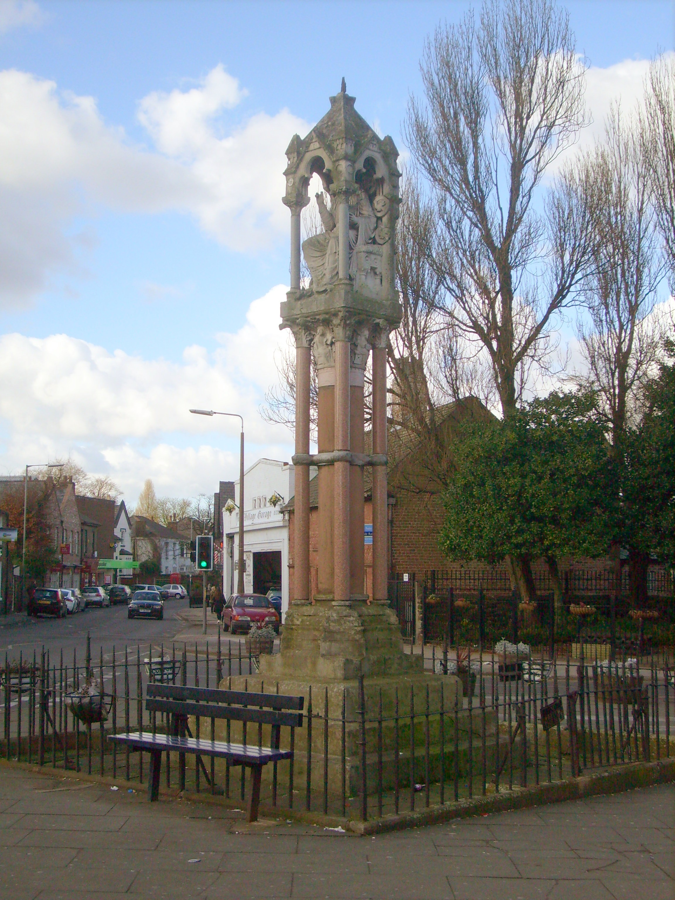 The Village Cross, West Derby Feb 10 201